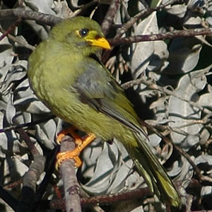 Bird, Bell Miner, Manorina melanophrys